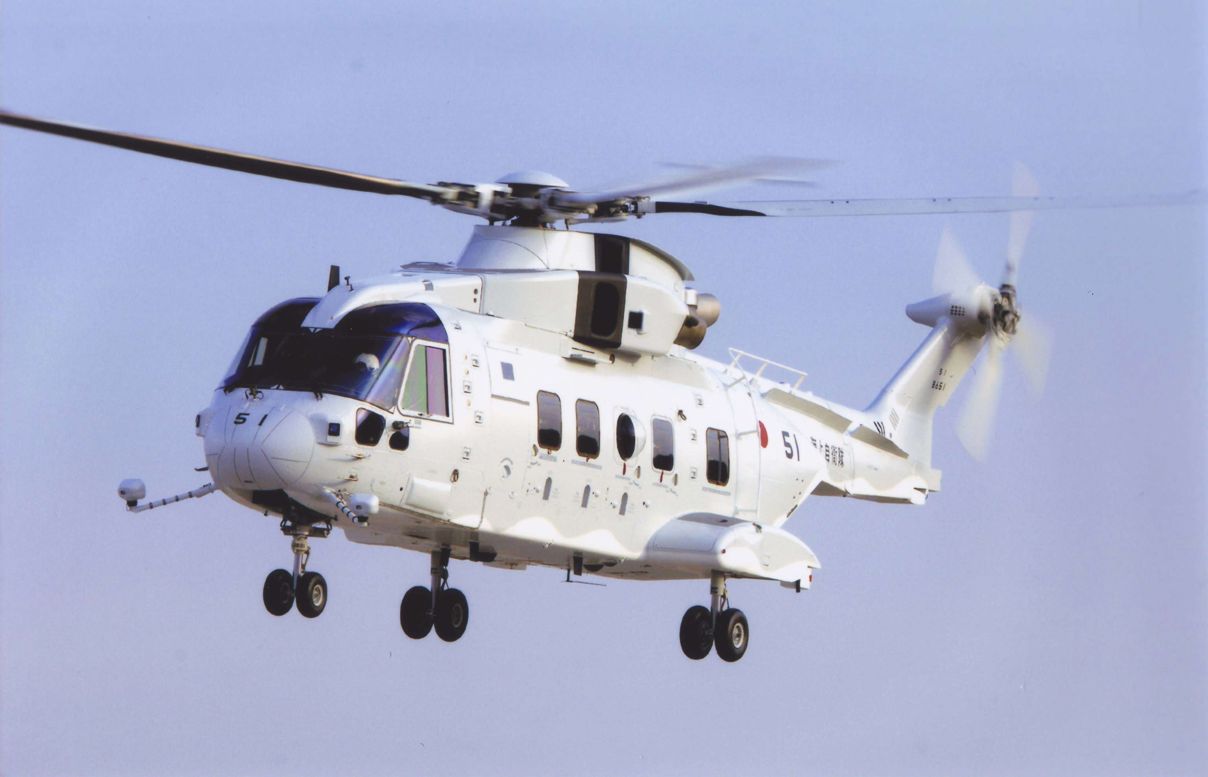 JMSDF Kawasaki MCH-101